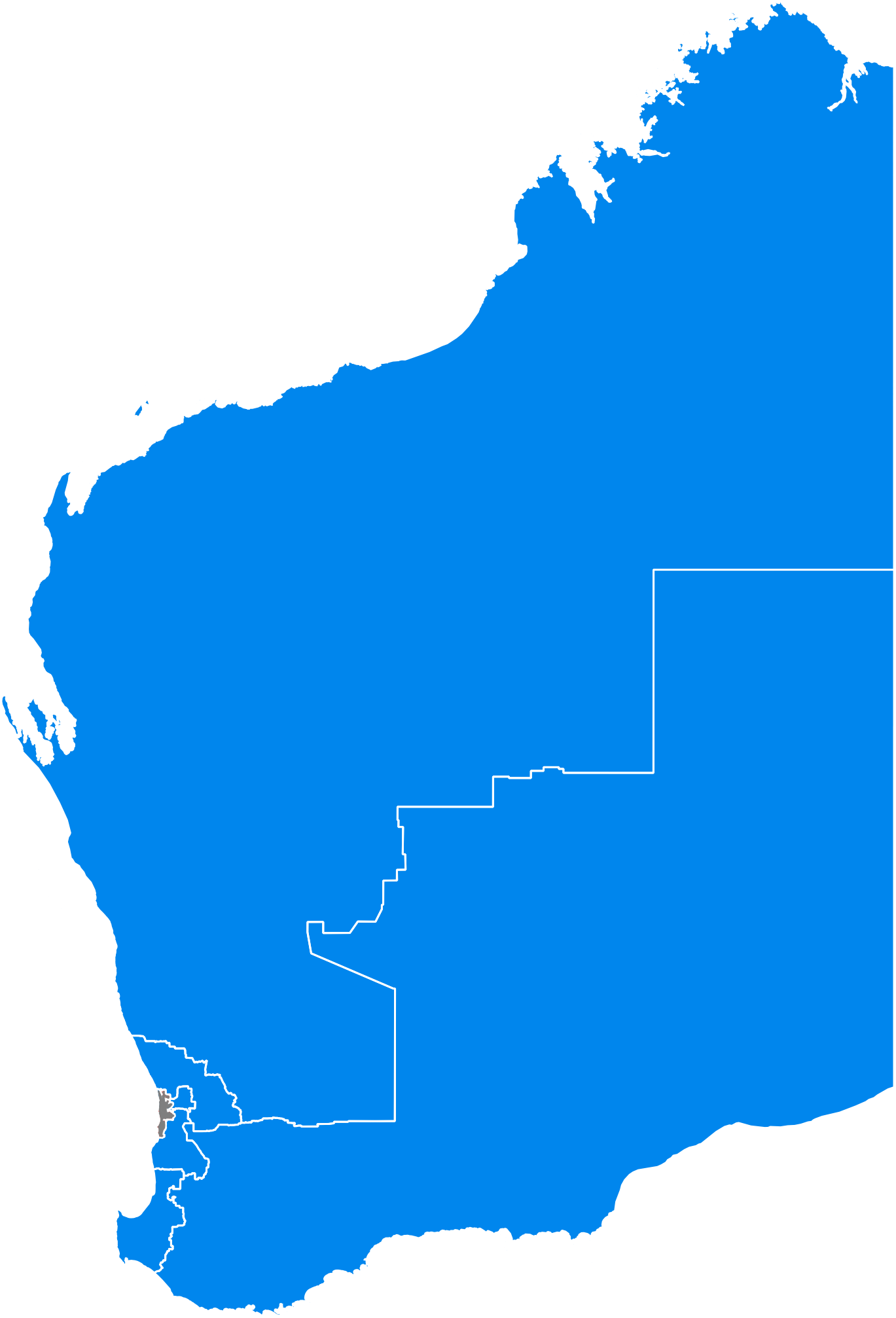 Results map of the Australian federal election, 2016 in Western Australia showing federal electorates decorated in the color representing a win by a particular party.